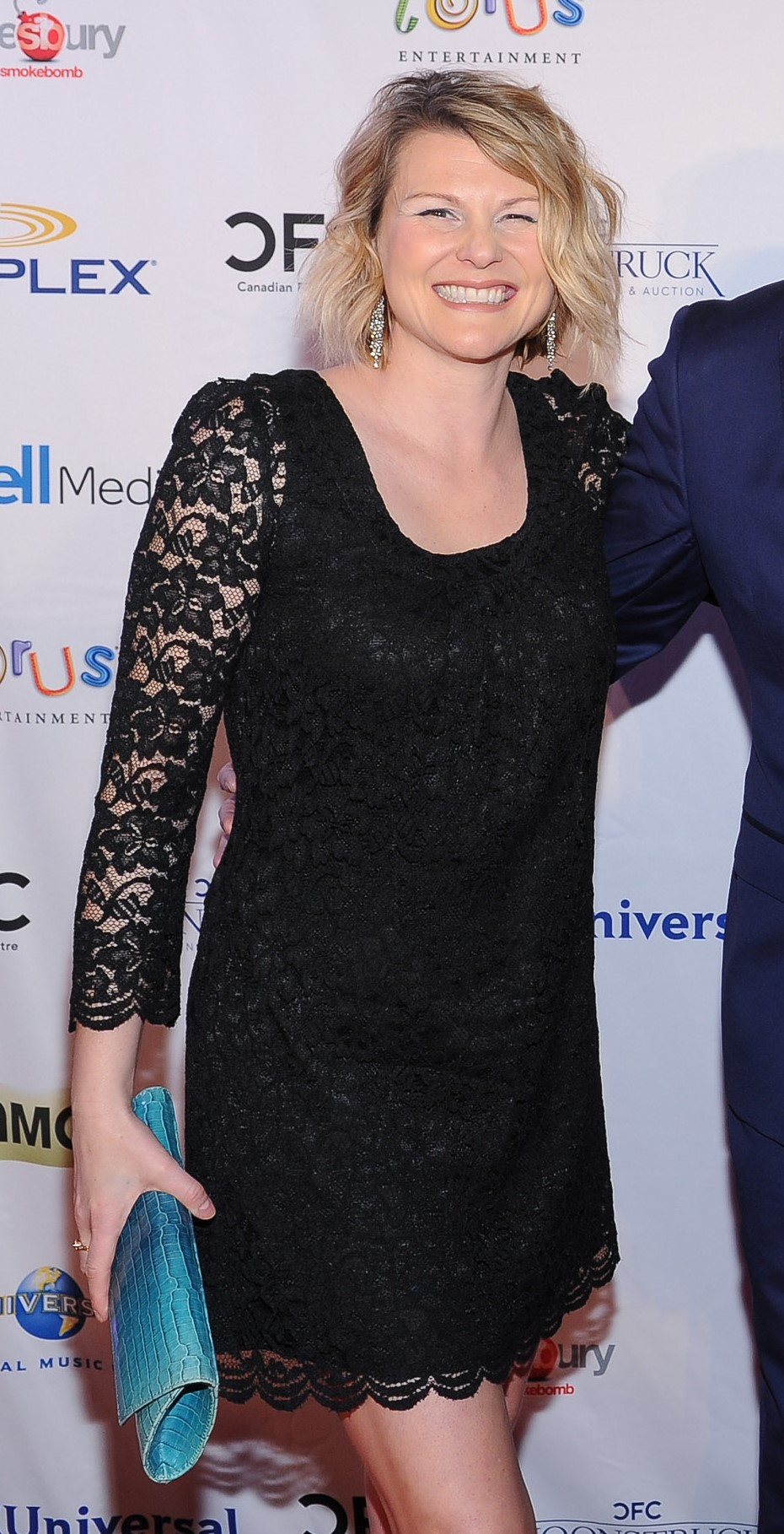 Jennifer Robertson